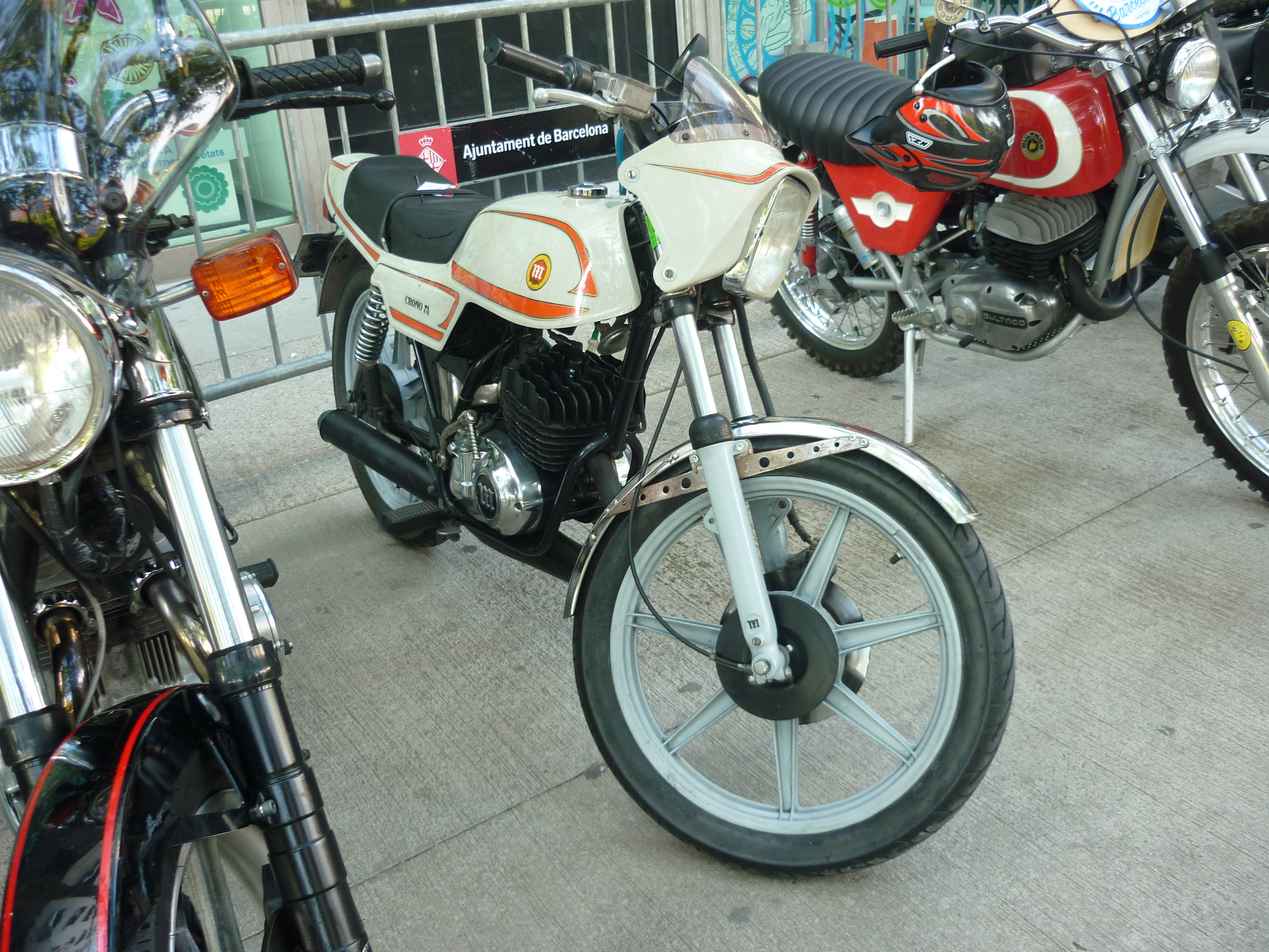 In the middle: Montesa Crono 75, 1981